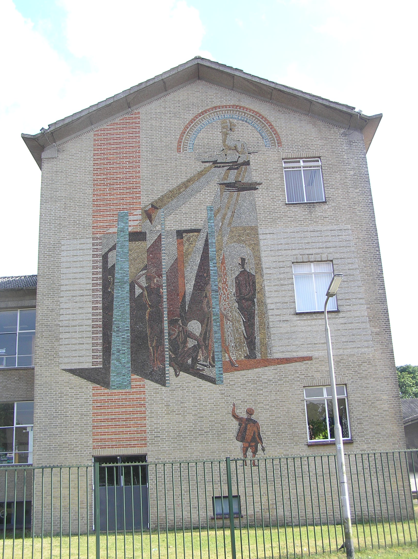 Mosaic by Berend Hendriks at the wall of the Corderius College at De Ganskuijl in Amersfoort, The Netherlands